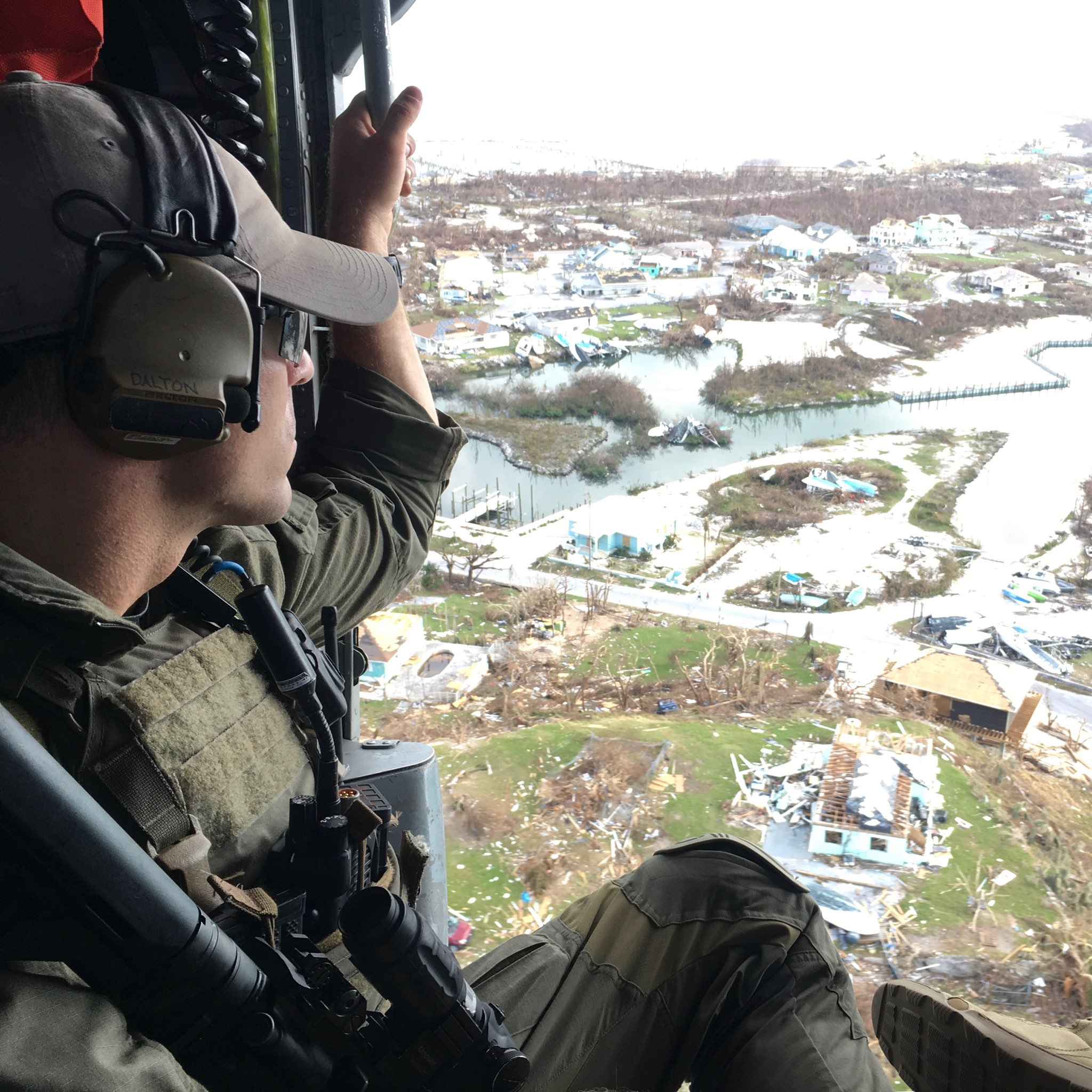 MSD agent aboard a UH-60 during a relief mission to the Bahamas